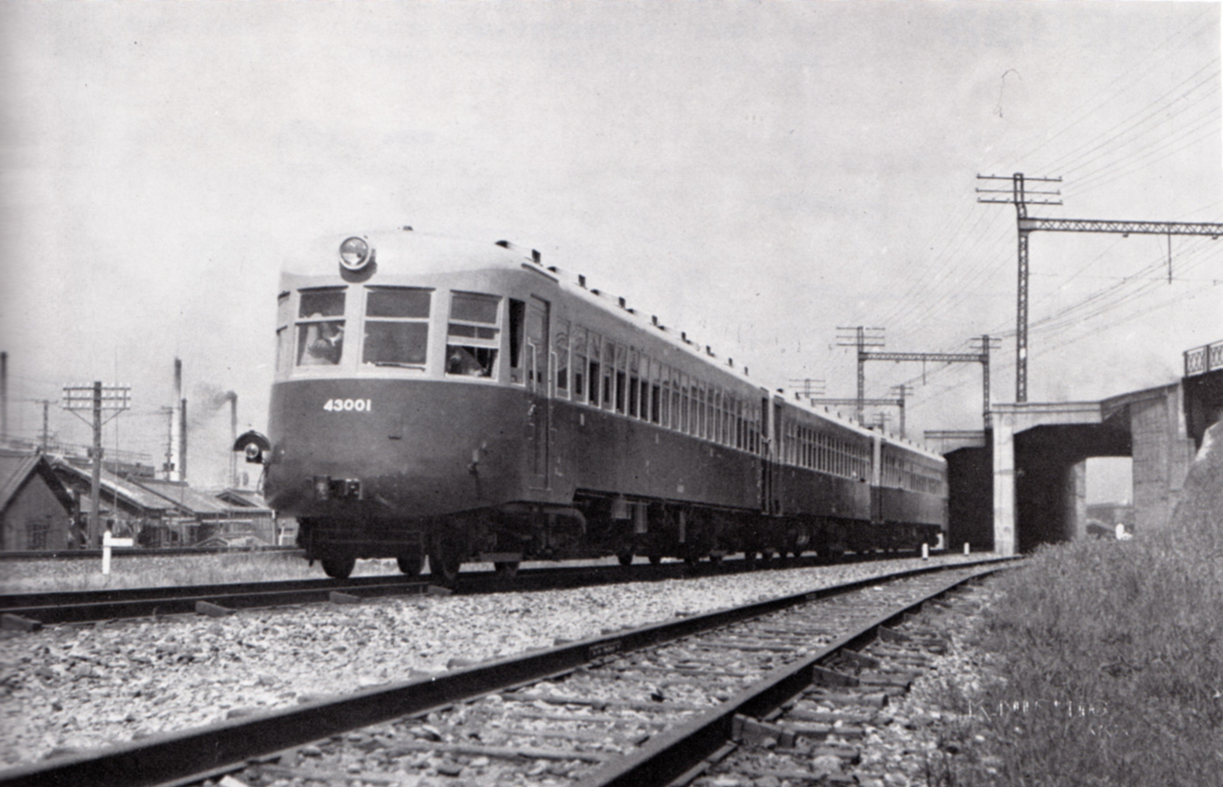 Japanese Governmental Railways type Kiha-43000 diesel multiple units. Photo taken between Takatori and Hyogo.